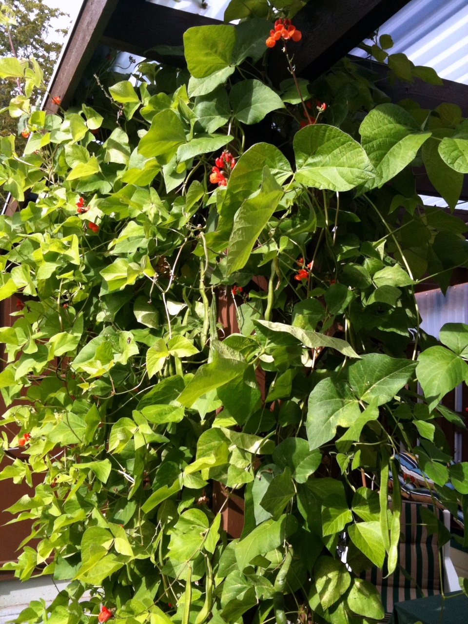 Runner bean